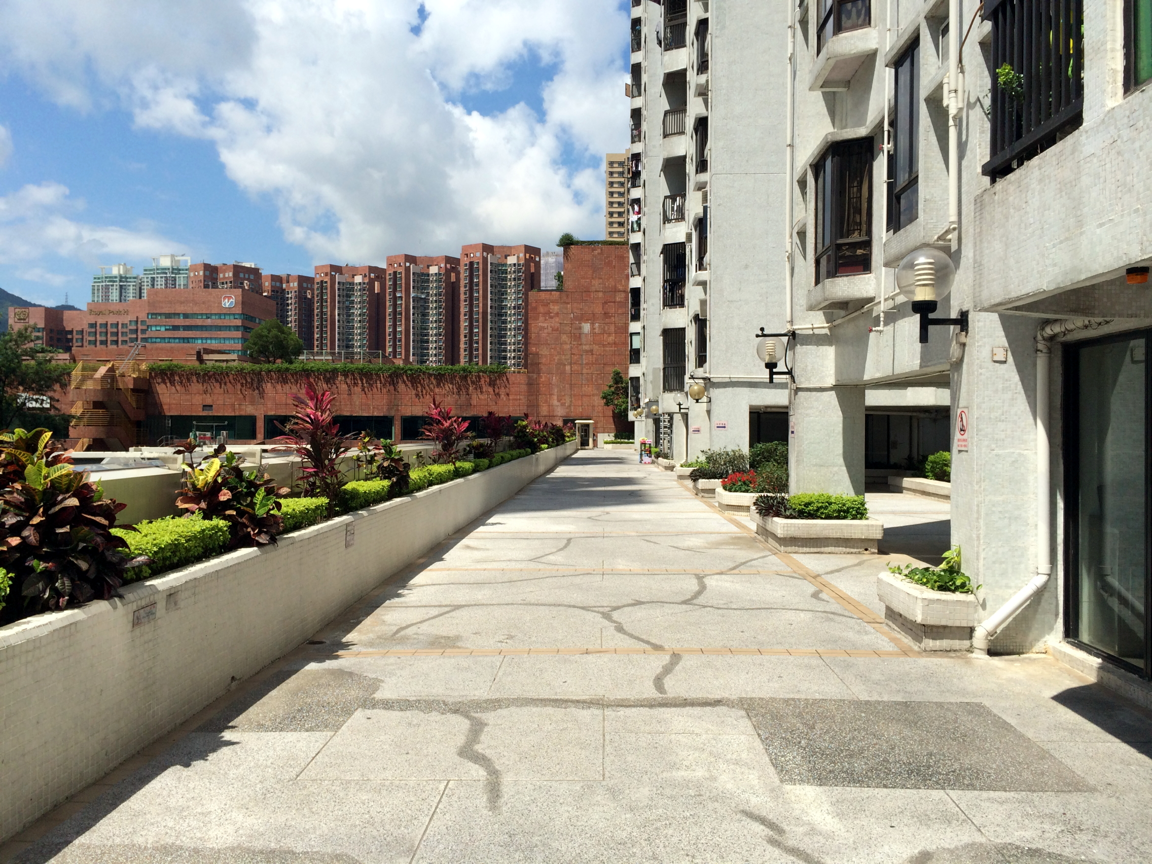 Shatin Plaza L4 Podium Access